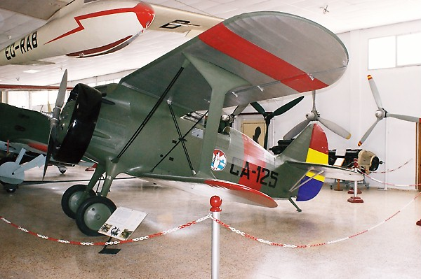 Polikarpov I-15 of the FARE. 4/10.